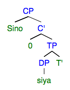 (12) Syntax tree, made with